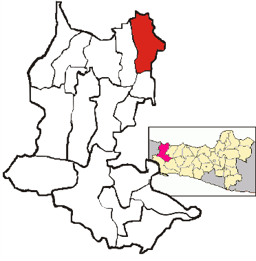 Brebes district map with Brebes Regency map insert